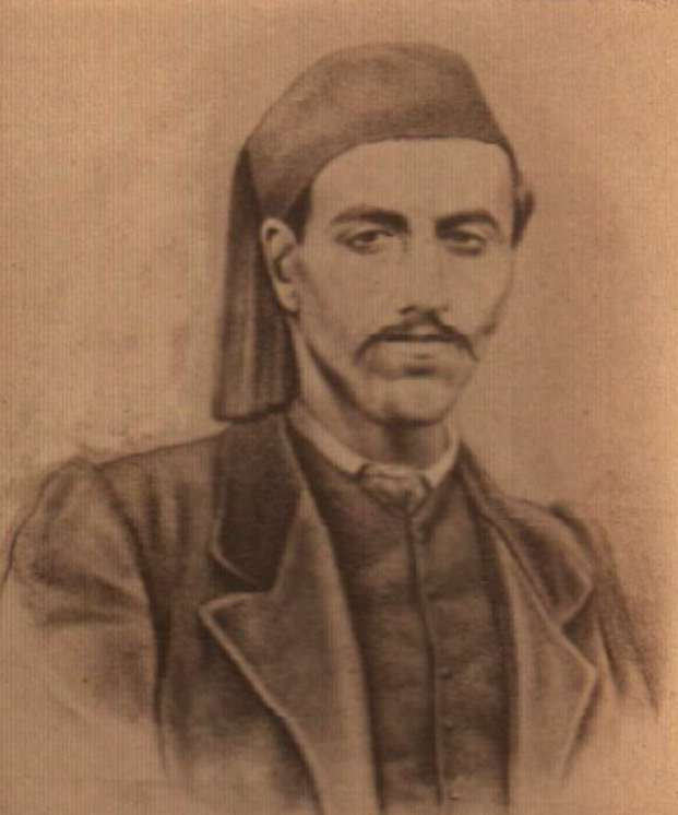 Spiro Dzherov (1834/1836-1868)